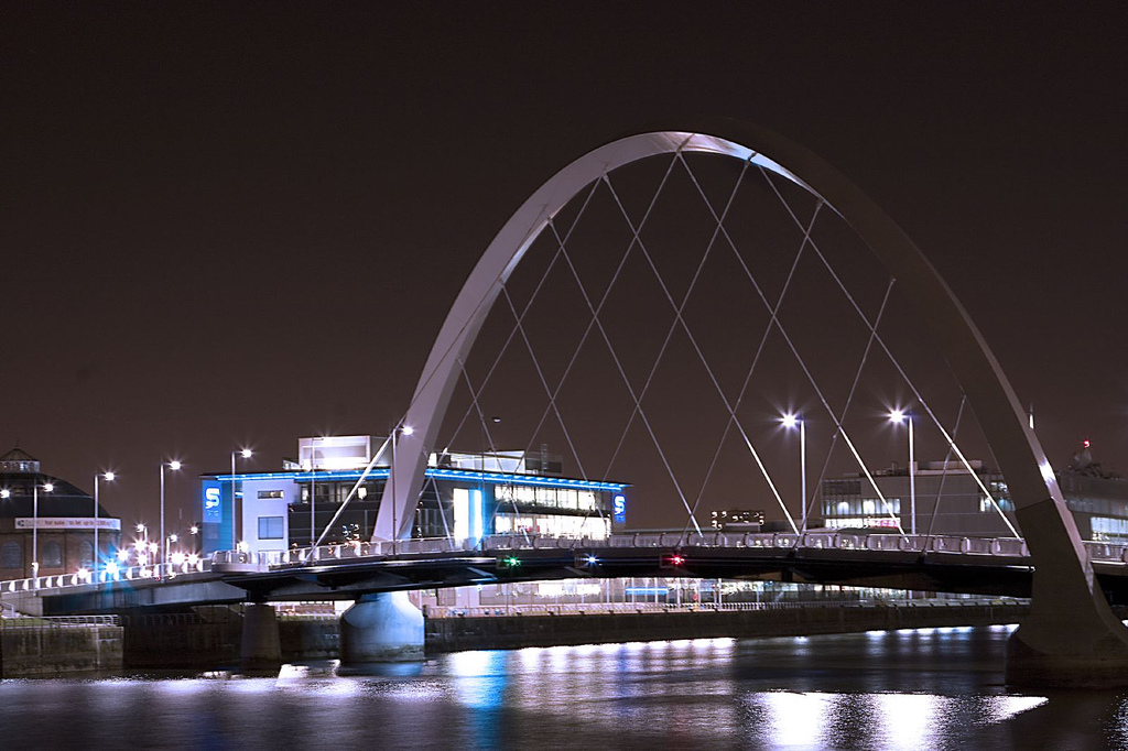 Glasgow Squinty Bridge